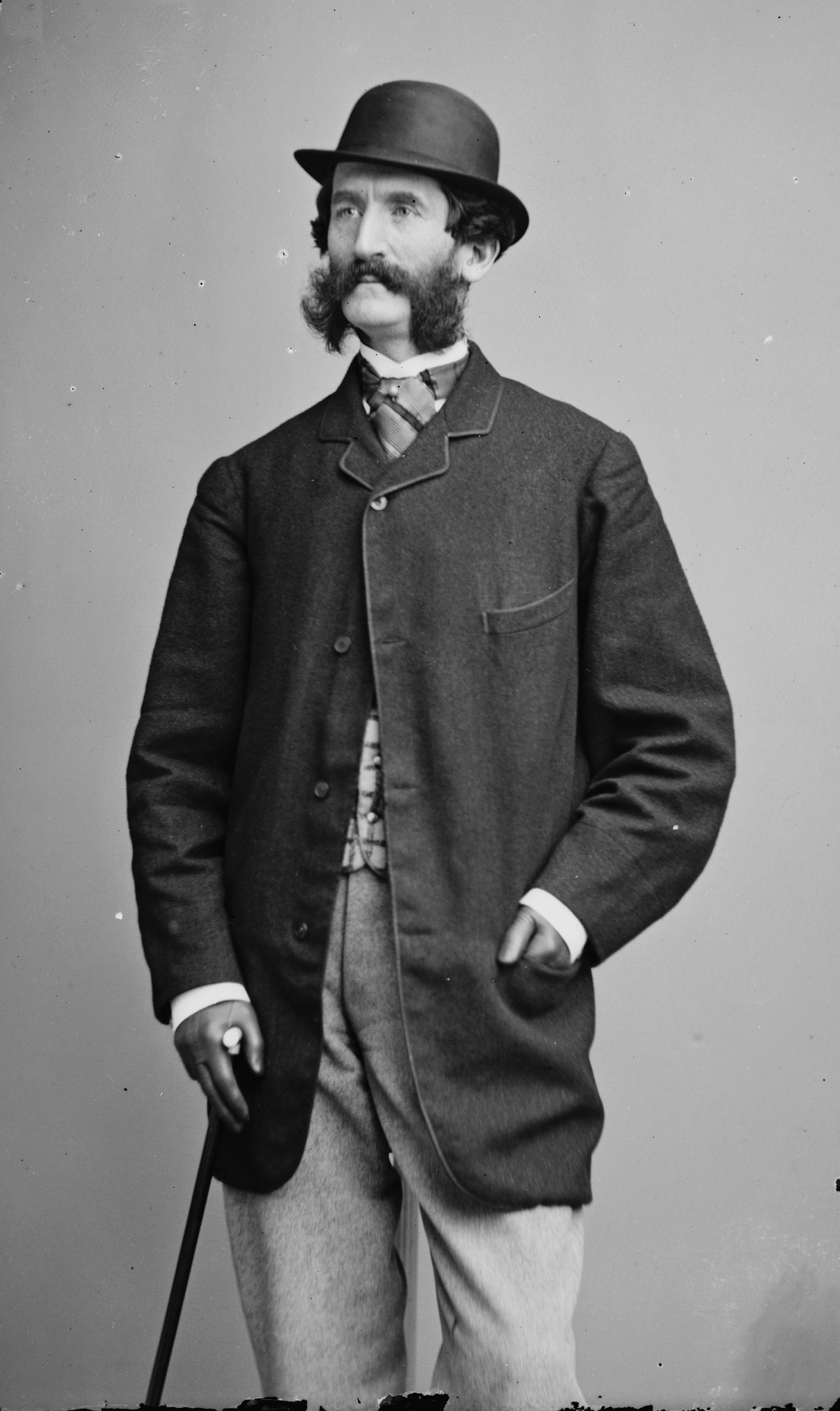 Richard Grant White. Library of Congress description: "White, Richard Grant".